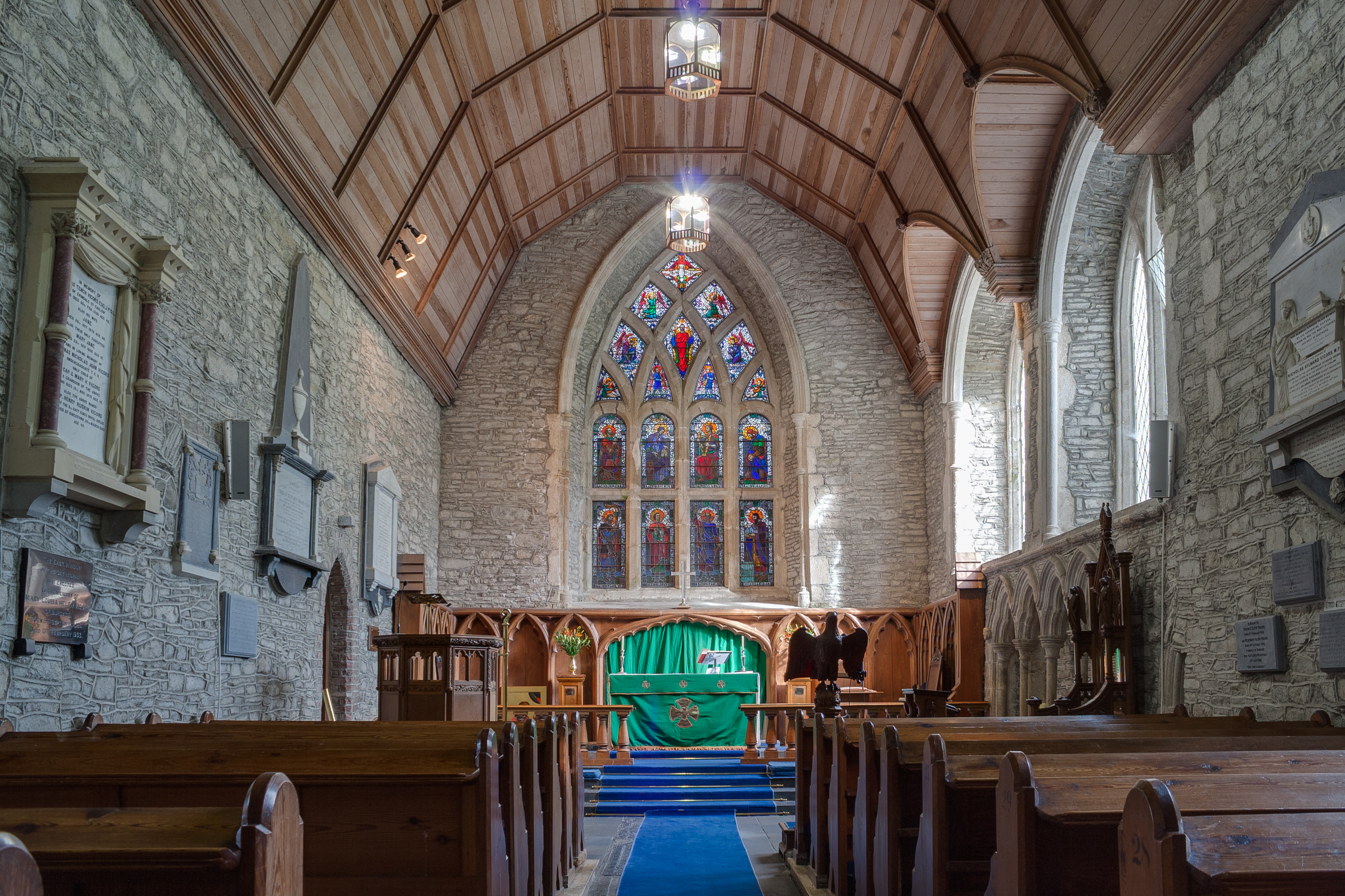 Choir of St Lazerian's Cathedral, looking east.